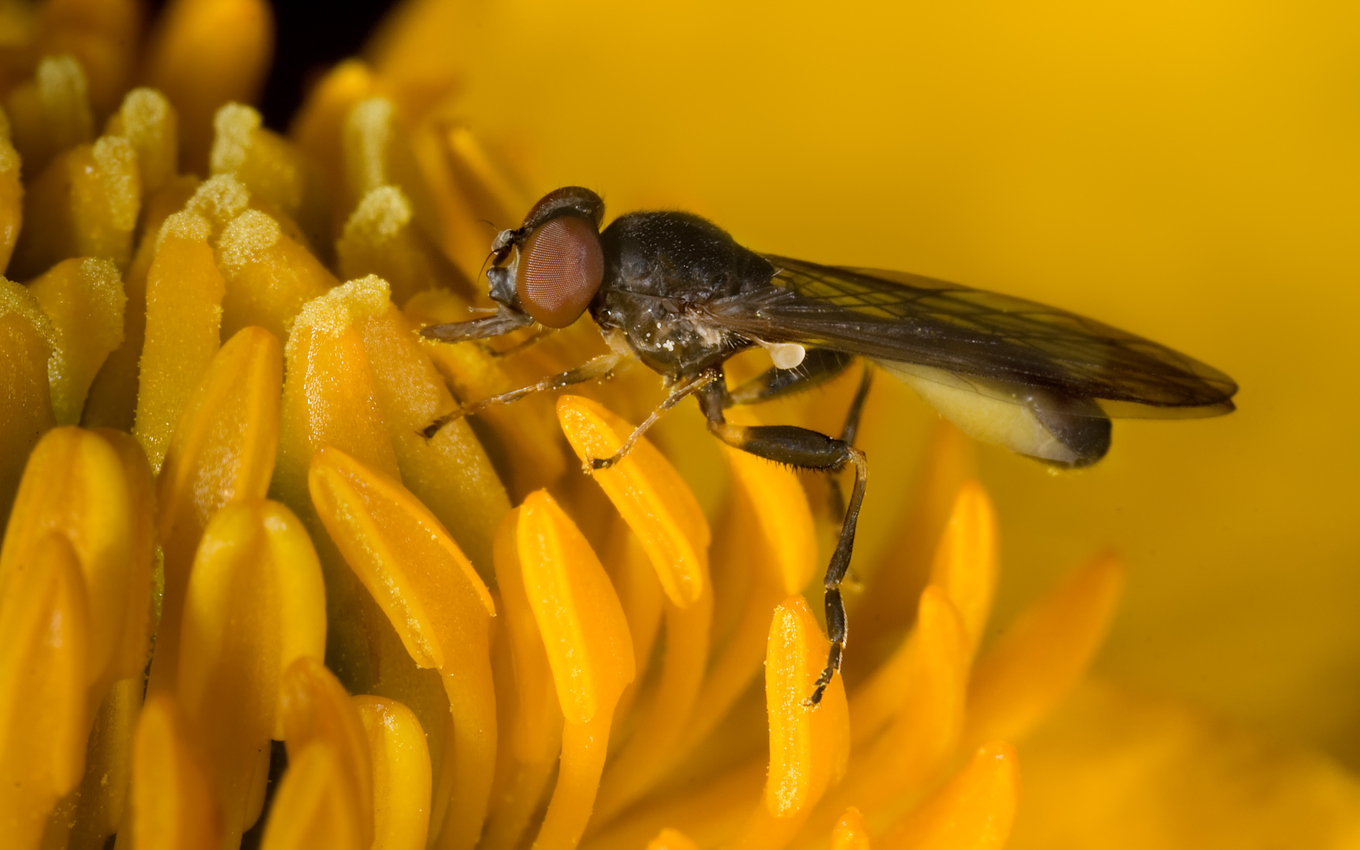 A rare Sphegina montana on Caltha palustris